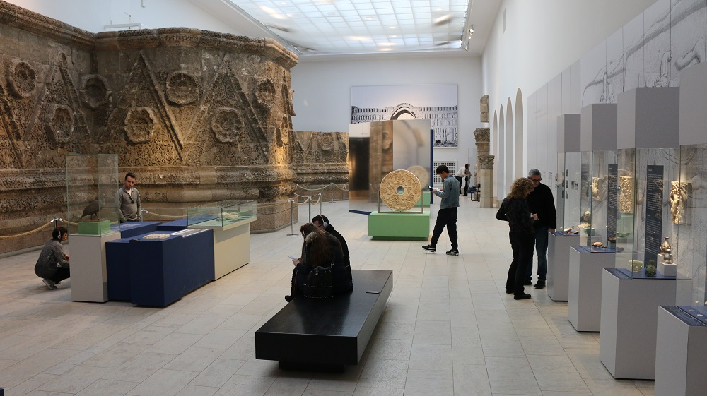 The Exhibition "Ctesiphon: Persian Sources of Islamic Art" at Berlin's Pergamonmuseum. Berlin, March 2017. Photo: Persian Dutch Network